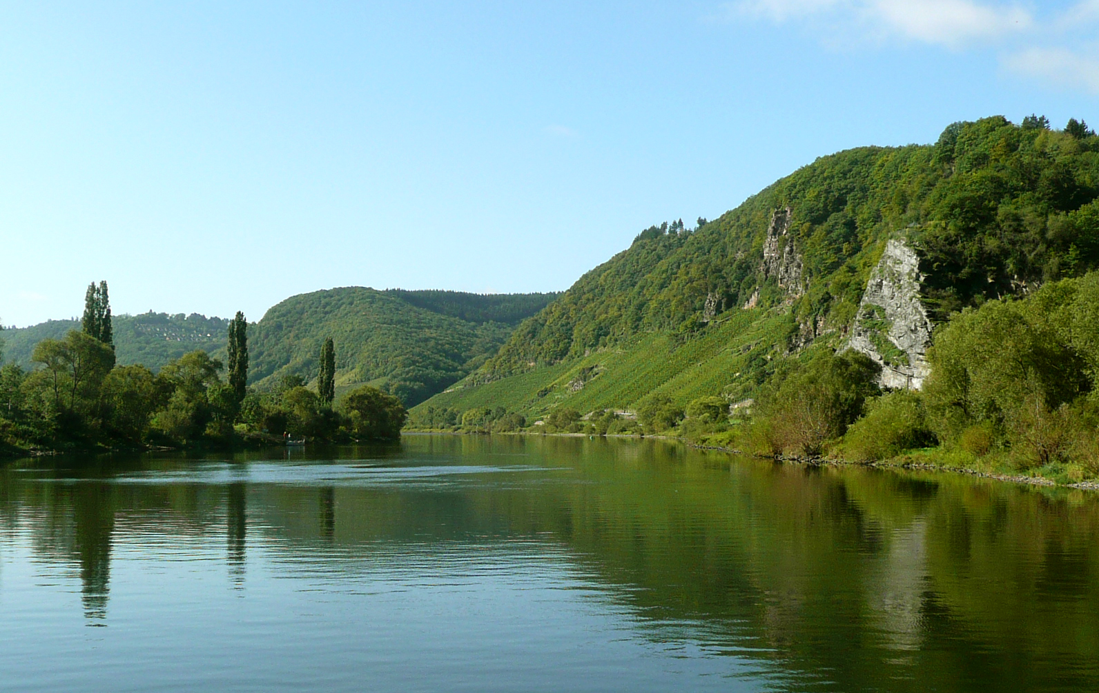 Mosel landscape at km 99, in front of Burg. Vineyards are probably the Moullay-Hofberg of Reil.